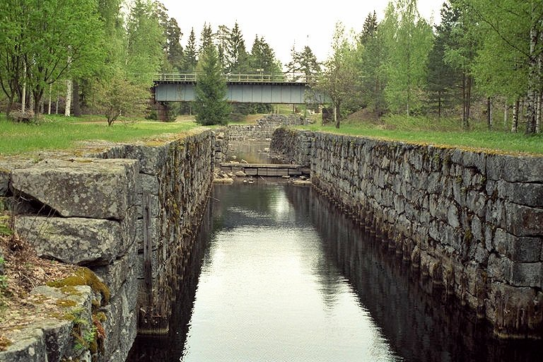 Museum canal of Taipale in Varkaus, Finland